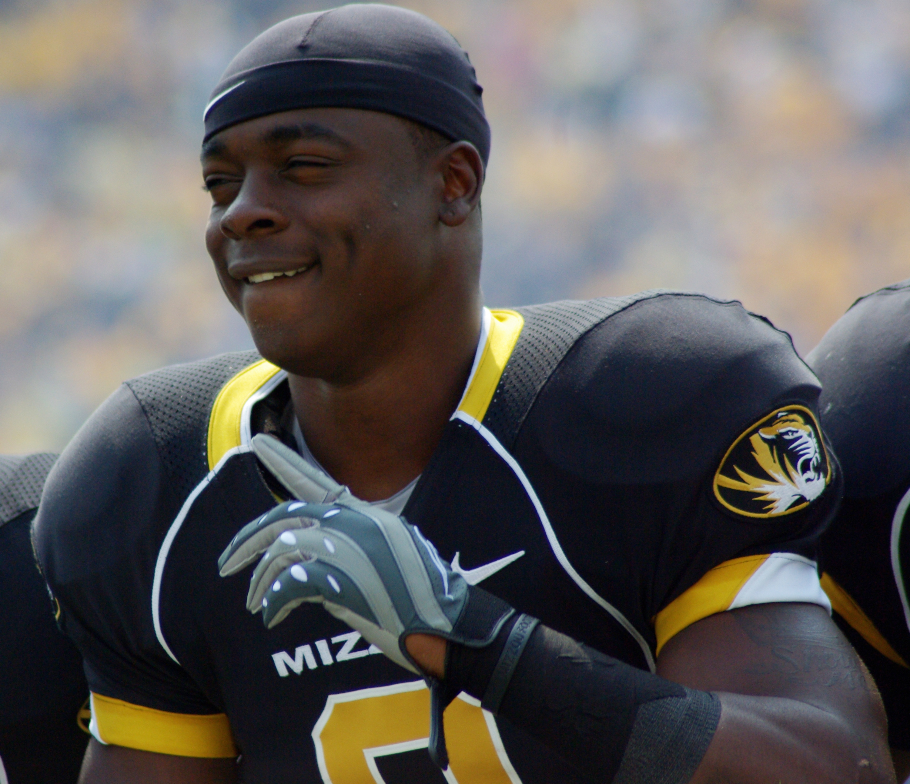 Missouri Tigers wide receiver Jeremy Maclin at the Nevada game in September 2008